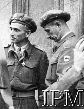 Podpułkownik Henryk Piątkowski (z prawej) - dowódca 5 Wileńskiej Brygady Piechoty (od czerwca do września 1944 roku) i podpułkownik dyplomowany Feliks Machnowski. (czerwiec 1944 w okolicach włoskiej miejscowości Jelsi)